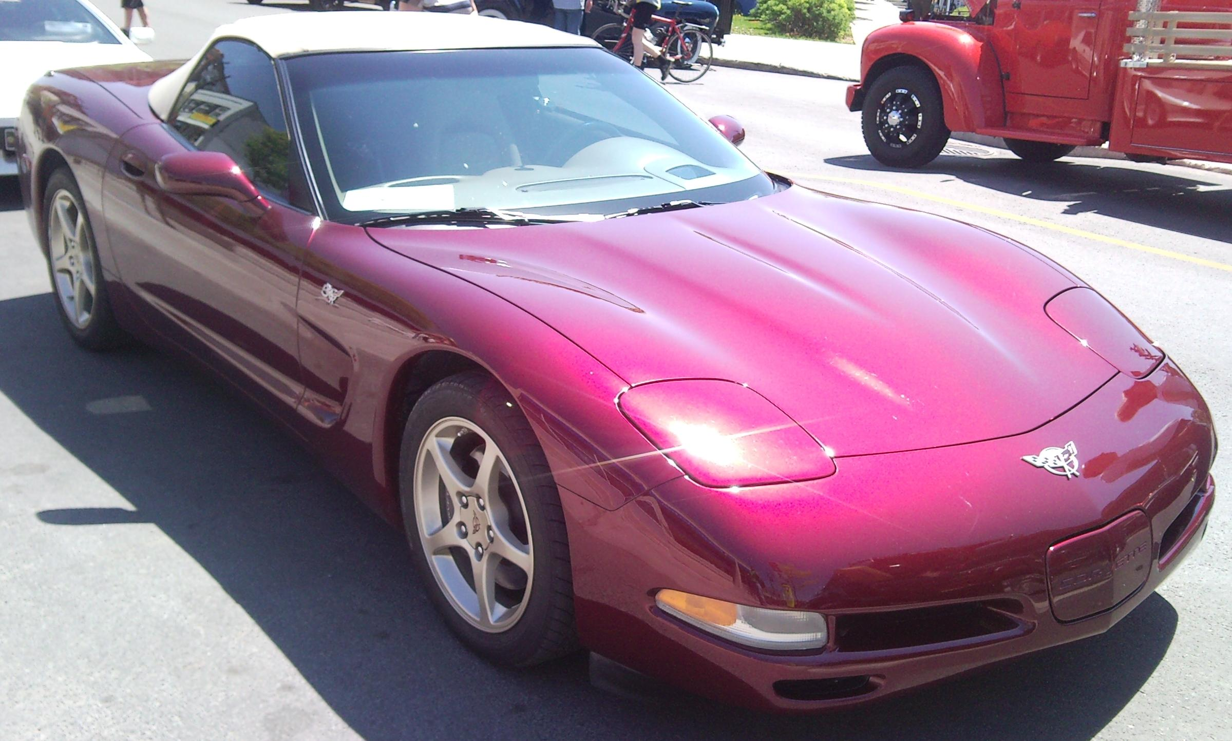 2003 Chevrolet Corvette photographed in St. Lambert, Quebec, Canada at Auto classique VAQ St-Lambert 2012.